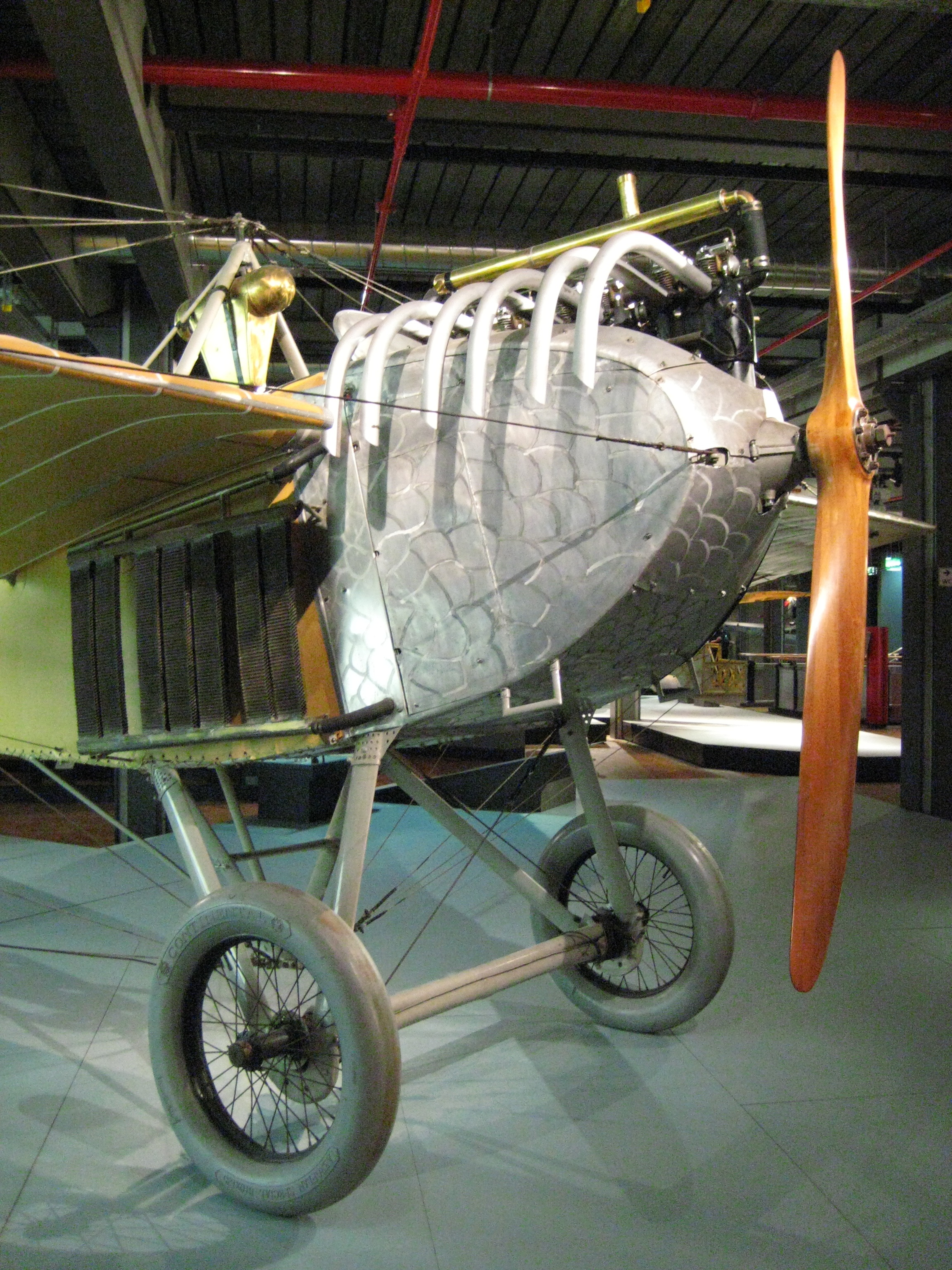 Jeannin Stahltaube, year of manufacture 1914, Emil Jeannin Flugzeugbau GmbH, Johannisthal German Museum of Technology Native nameDeutsches Technikmuseum BerlinLocationBerlinCoordinates52° 29′ 55″ N, 13° 22′ 39″ E Established1983Website control VIAF: 150642200 ISNI: 0000 0001 0121 6426 LCCN: n97103087 GND: 2162237-1 SUDOC: 075899728 WorldCat